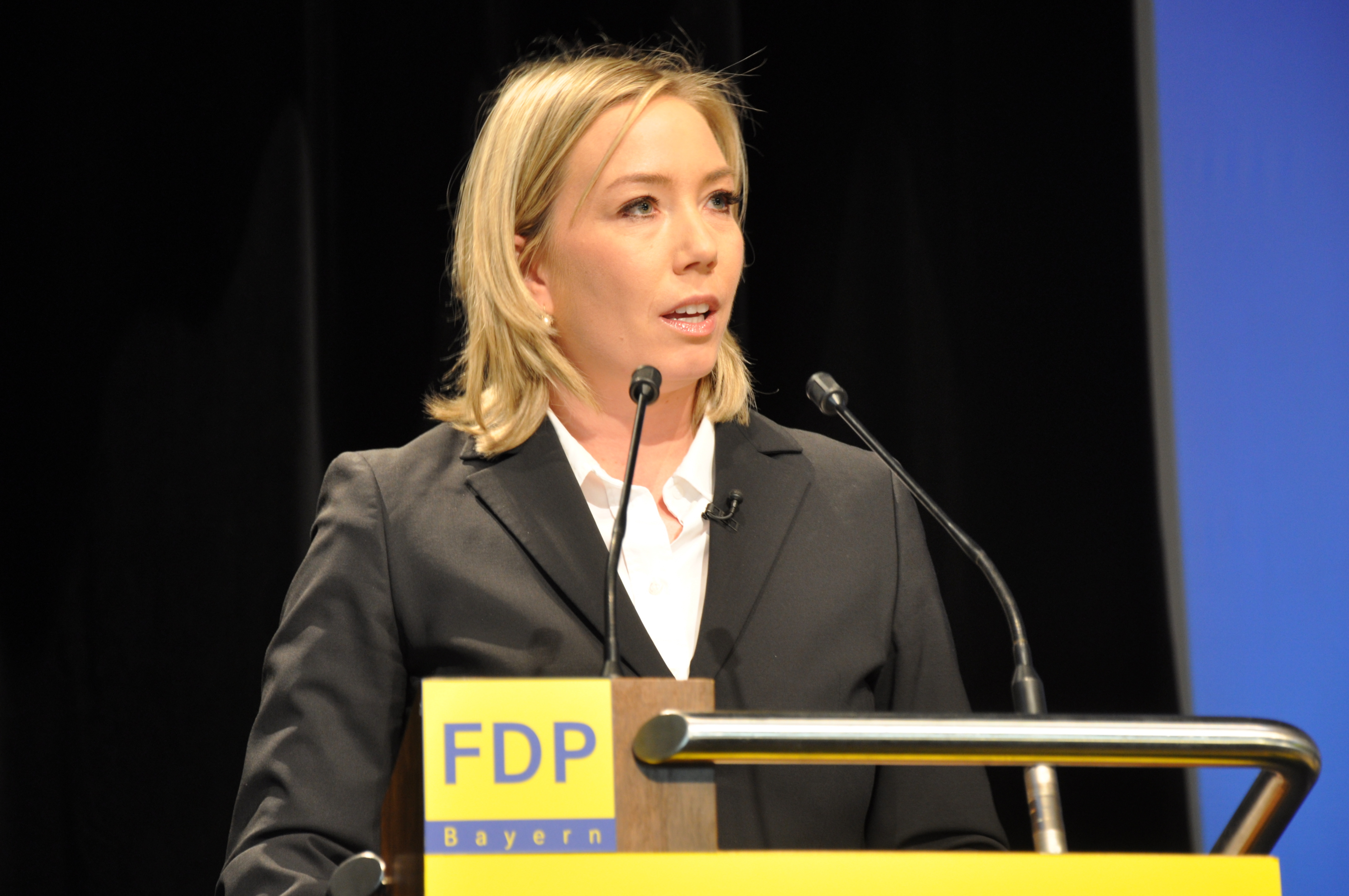 Miriam Gruß, German politician, member of parliament, secretary general of the liberal Free Democratic Party (FDP) in Bavaria.